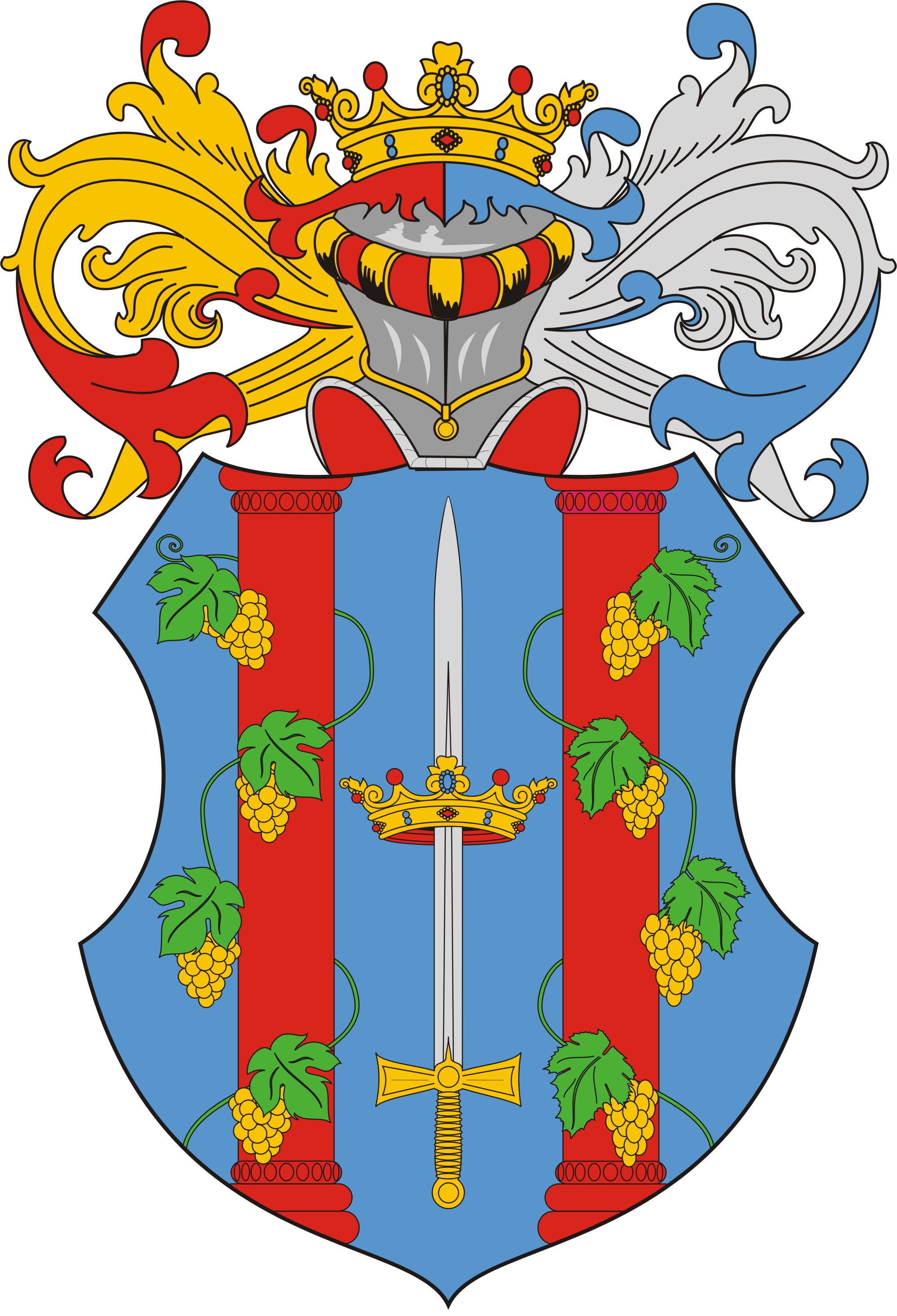 Coat of arms of Kunbaja, Hungary